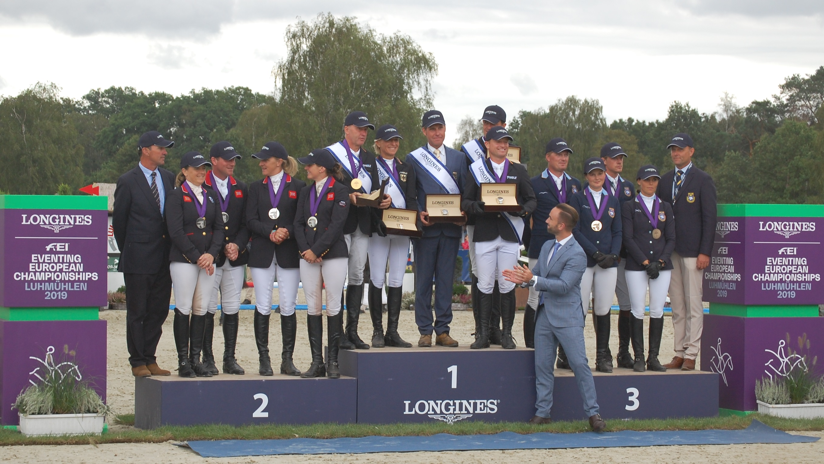 2019 European Eventing Championship medal ceremonies - team: the teams of Great Britain, Germany and Sweden (from left to right)